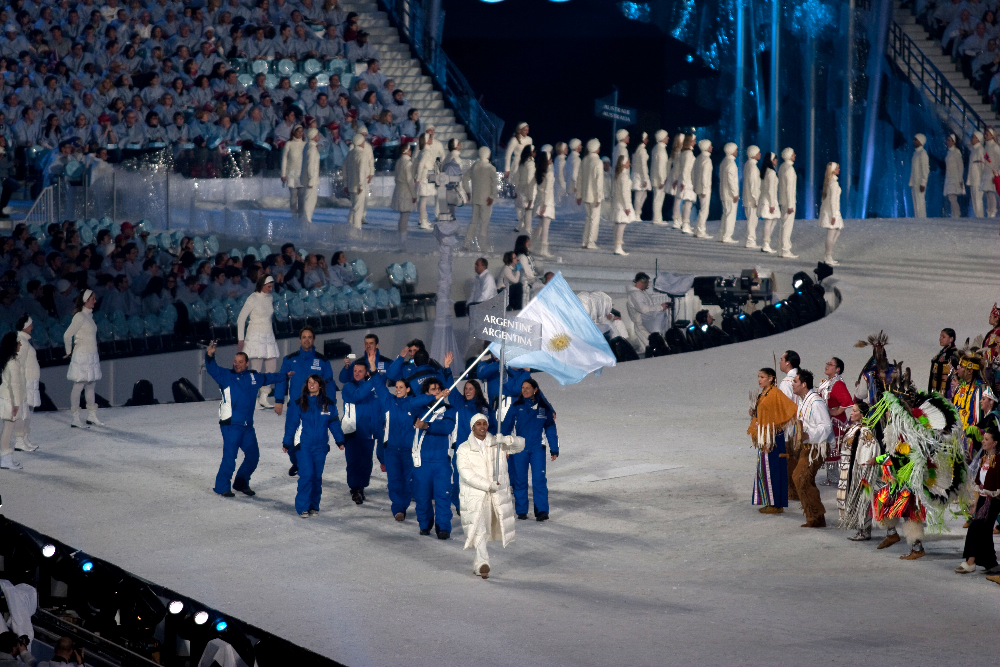 The athletes from Argentina entering the stadium at the opening ceremonies of the 2010 Winter Olympics